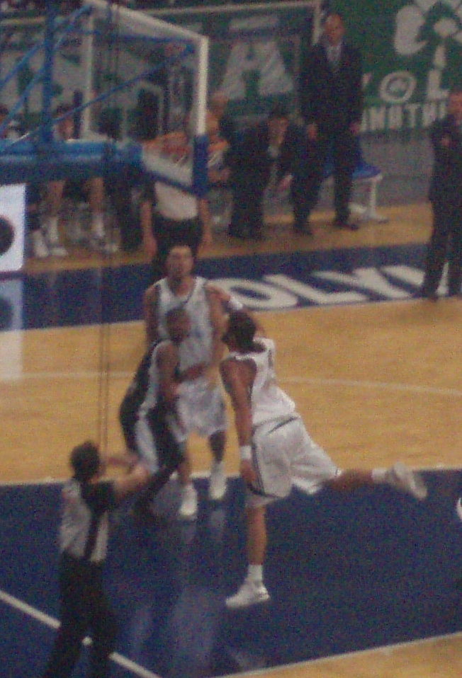 Alvertis PAO-PAOK